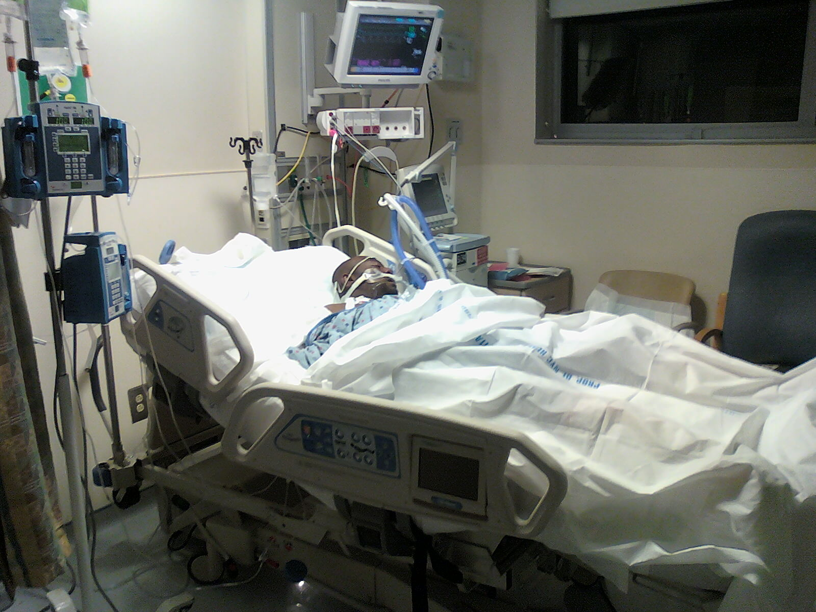 Father Goose on life support